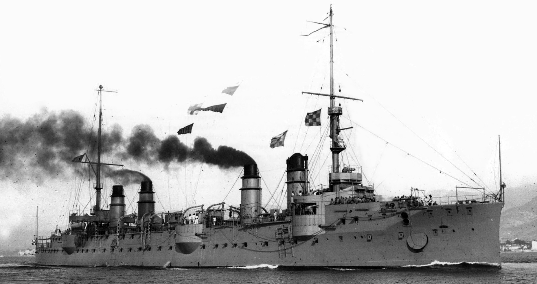 French cruiser Jurien de la Gravière